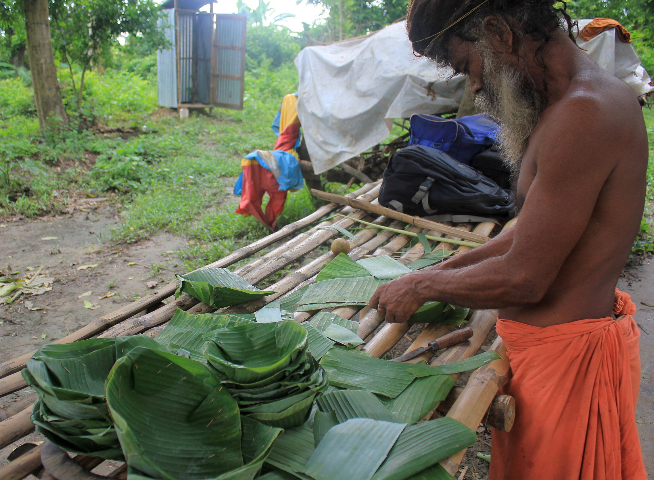 Making of Banana Leaf Plates which Replace Plastic as a Climate Solution